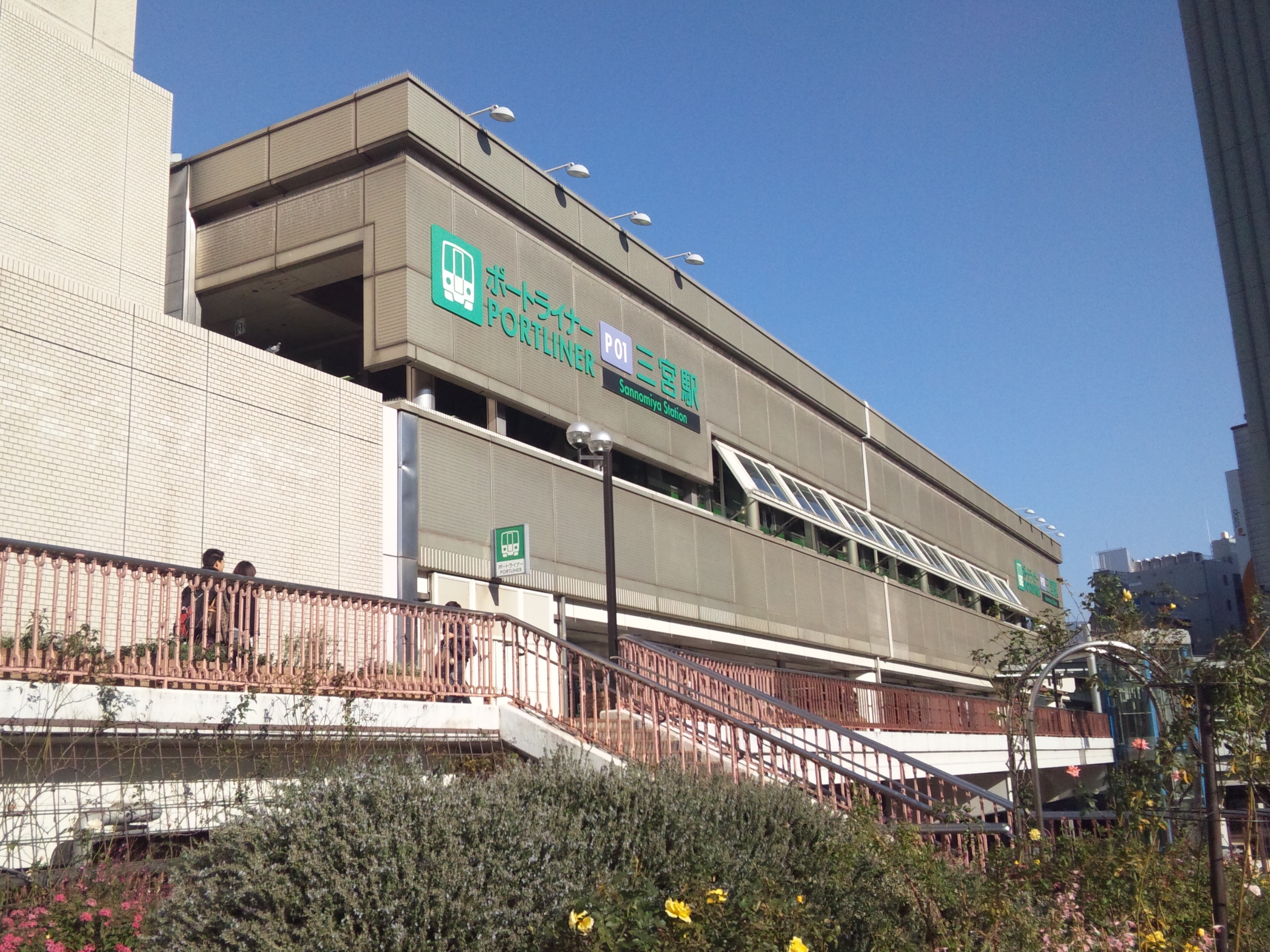 Portliner Sannomiya Station